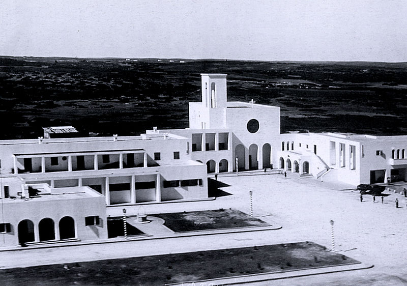 The Cesare Battisti Village in Libya, work of Florestano Di Fausto